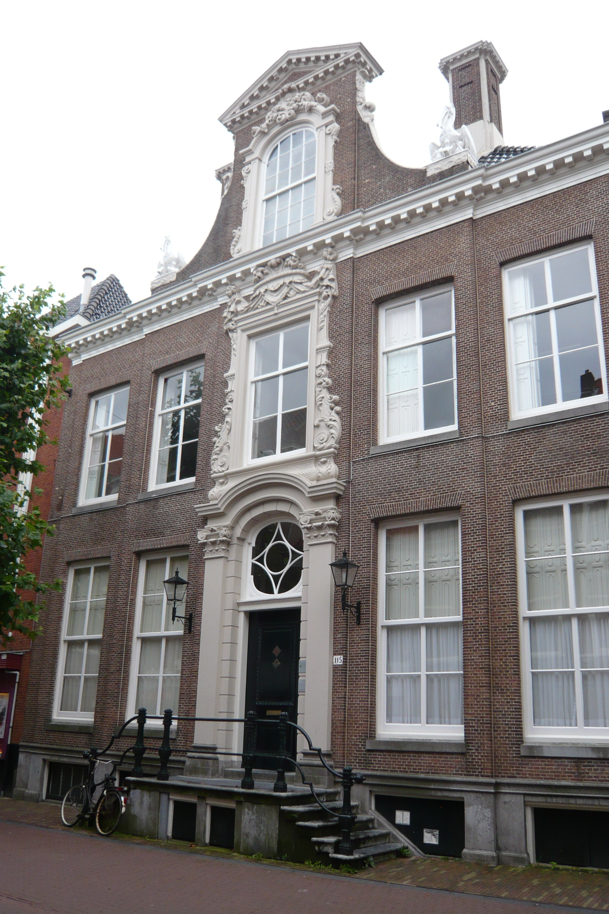 The house with the stairs, Grote Houtstraat Haarlem, meeting hall for old Haarlem chamber of rhetoric club called Trou moet Blijcken (Faith must show). On either side of the neck gable, a sculpture of a pelican feeding her young is visible - this is the Blazoen of the club.